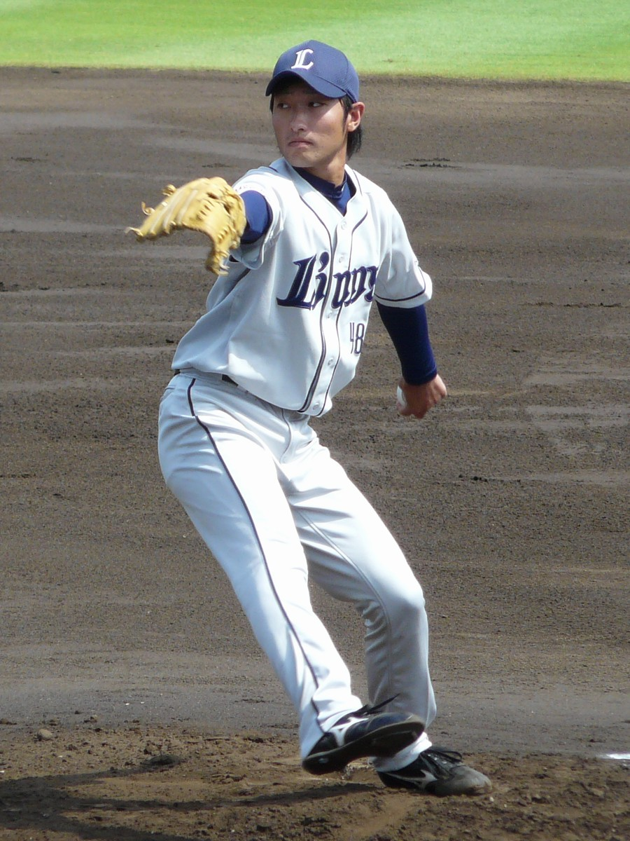 Shota Takekuma, pitcher of the Saitama Seibu Lions, at Yomiuri Giants Stadium.